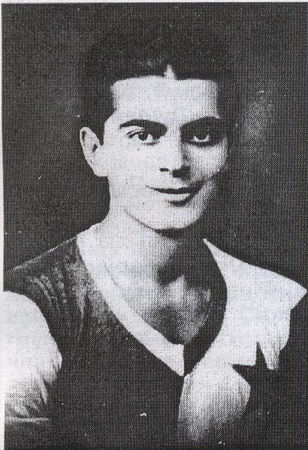 Božidar Boško Petrović (1911-1934), former Yugoslavian professional footballer and aviator who died in the Spanish Civil War.